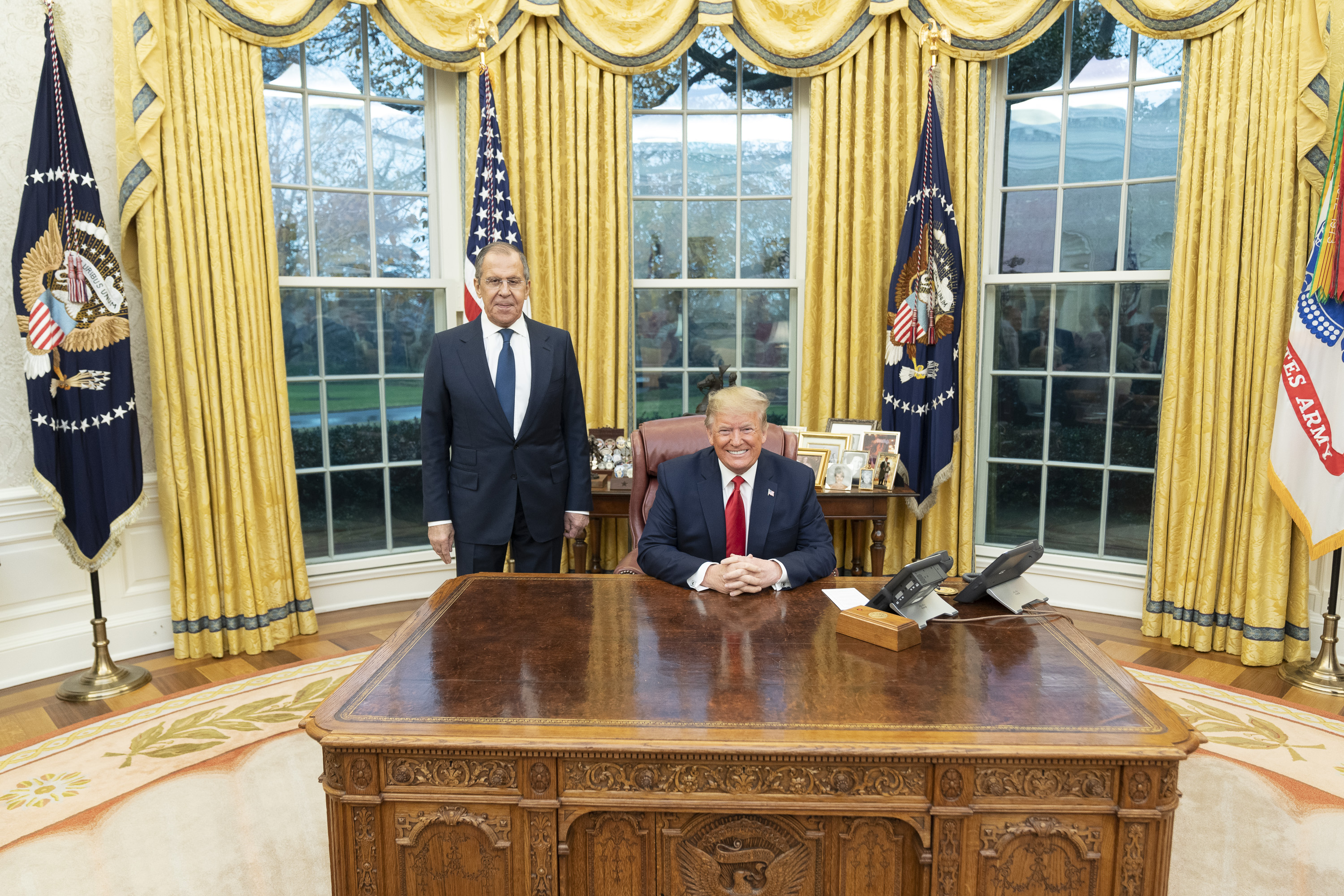 President Donald J. Trump welcomes Russian Foreign Minister Sergey Lavrov Tuesday, Dec. 10, 2019, to the Oval Office of the White House. (Official White House Photo by Shealah Craighead)